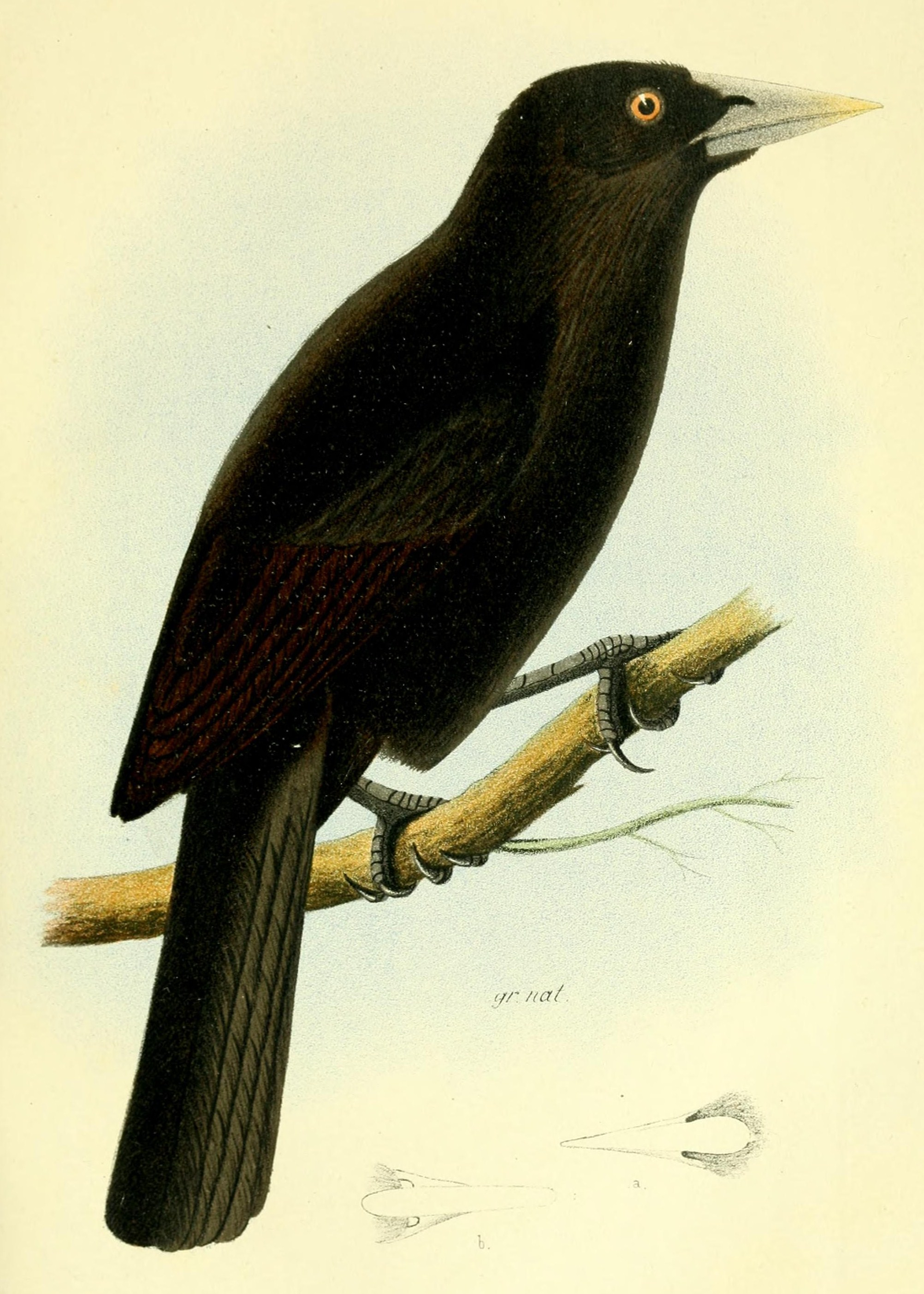 « Ageleus sclateri » = Cacicus sclateri (Ecuadorian Cacique)